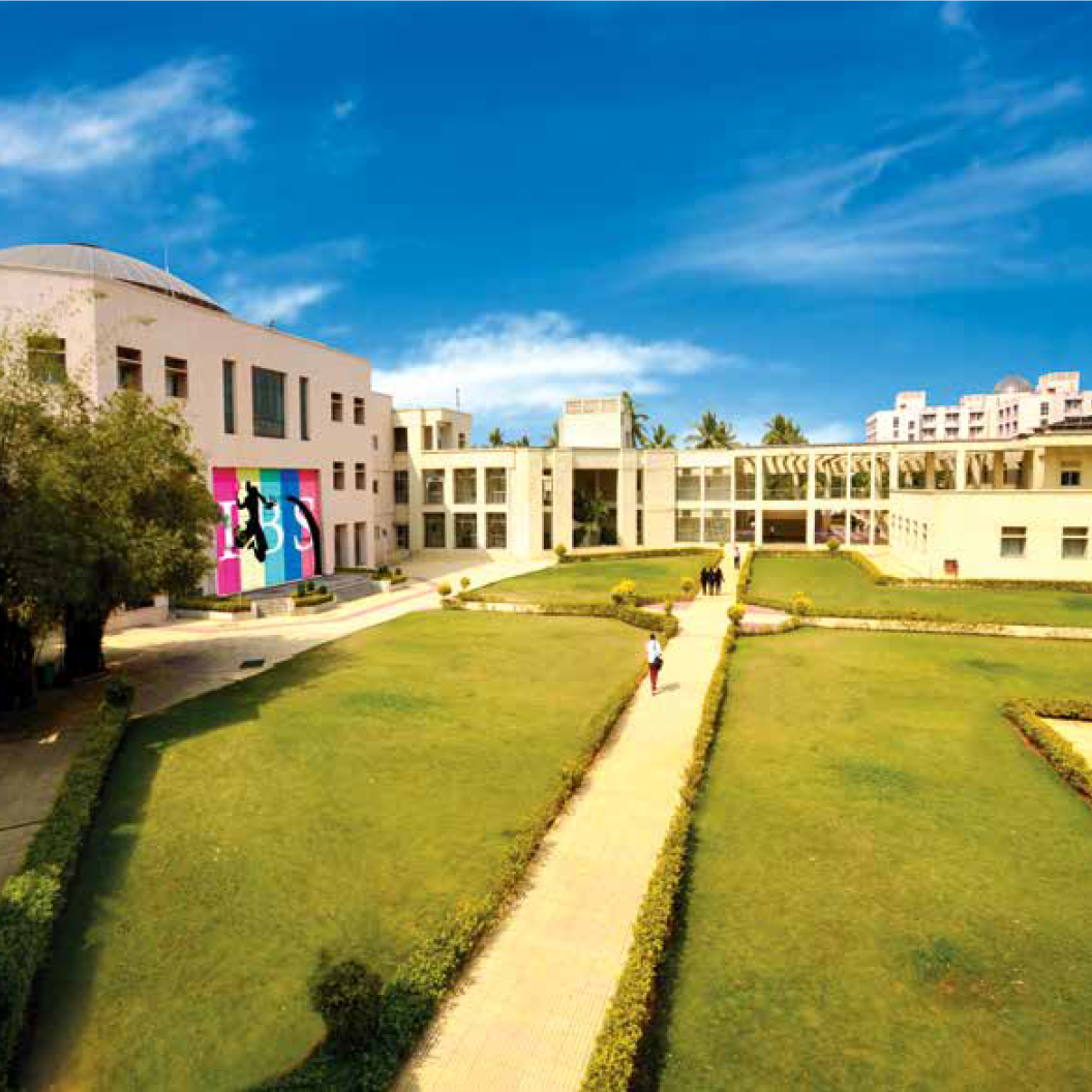 Image of ICFAI Foundation for Higher Education campus